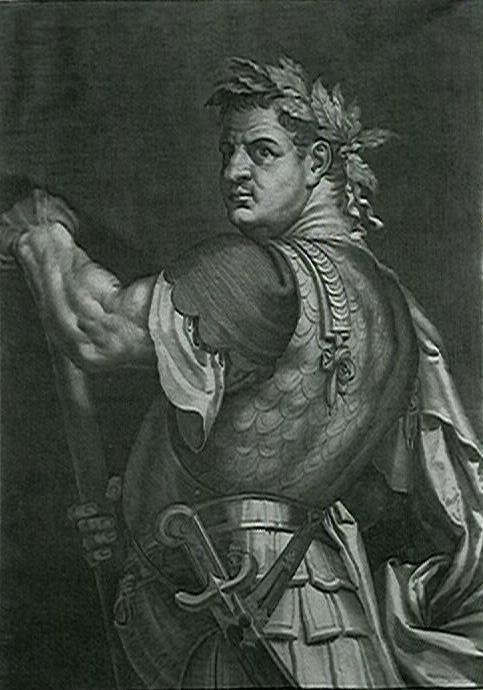 D. Titus Vespasian, Emperor of Rome from 79 to 81, engraved by Aegidius Sadeler after Titian.